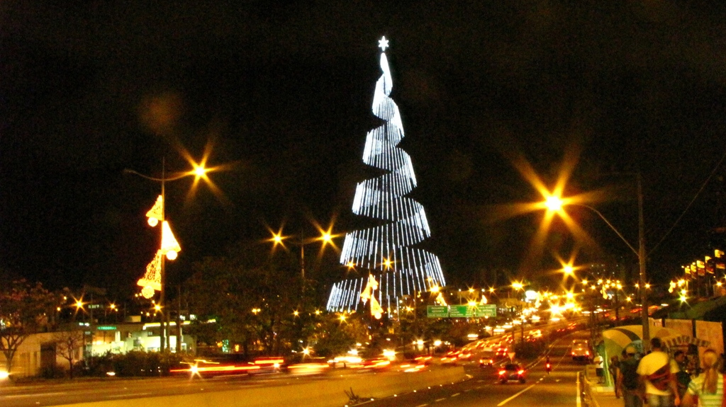 Salgado Filho Avenue in Natal, Brazil.